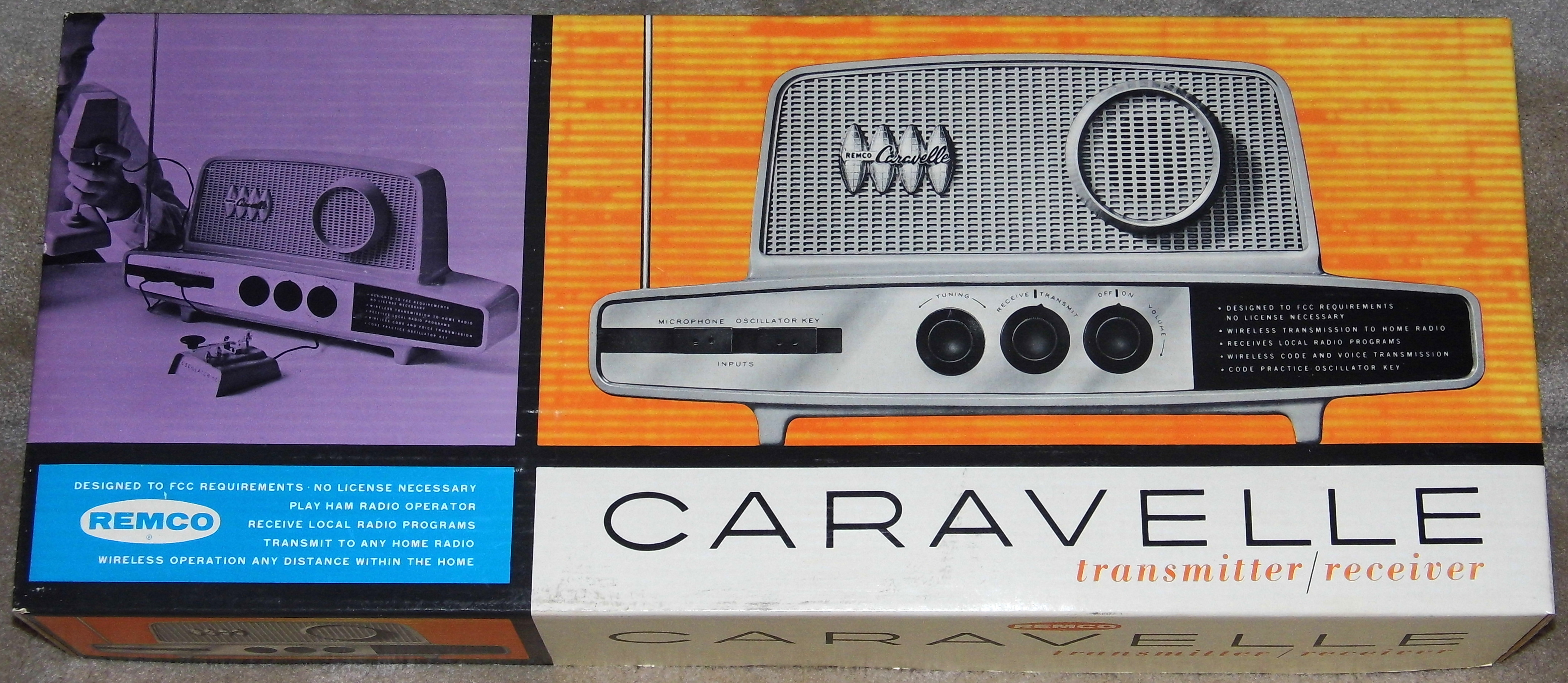 Vintage Caravelle Transmitter-Receiver By Remco, Style 120, Made In USA, Circa 1962